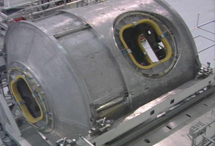 The International Space Station Node Structural Test Article, shown in the Space Station Processing Facility during 2010.